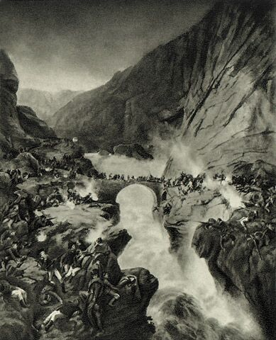 Suvorov in Teufelsbrücke ('Devil's Bridge')